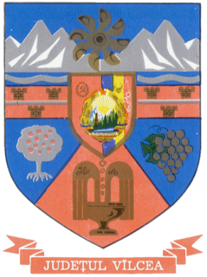 Communist coat of arms of Vîlcea County, Socialist Republic of Romania.